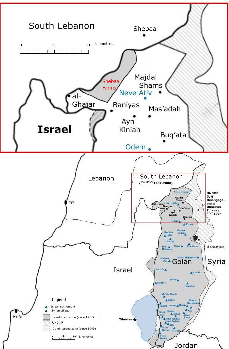 This is an English-language modified version of Image:Schebaa-Farmen.jpg, which is in German. The original was produced by User:Kandro, it was translated by User:Garzo and modified by User:Kaveh.